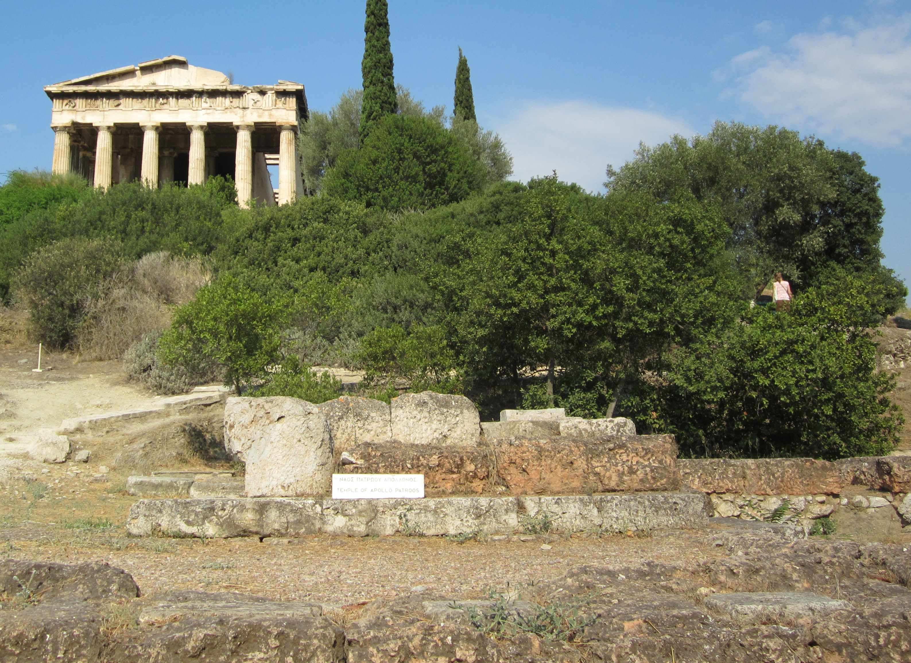 Temple of Apollo Patroos (Apollon Patroos). Ancient Agora of Athens, Greece.